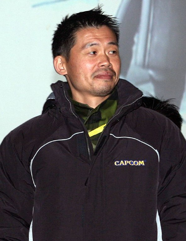 Video game designer and producer Keiji Inafune at the launch event of Capcom's Lost Planet: Extreme Condition in San Francisco, United States.